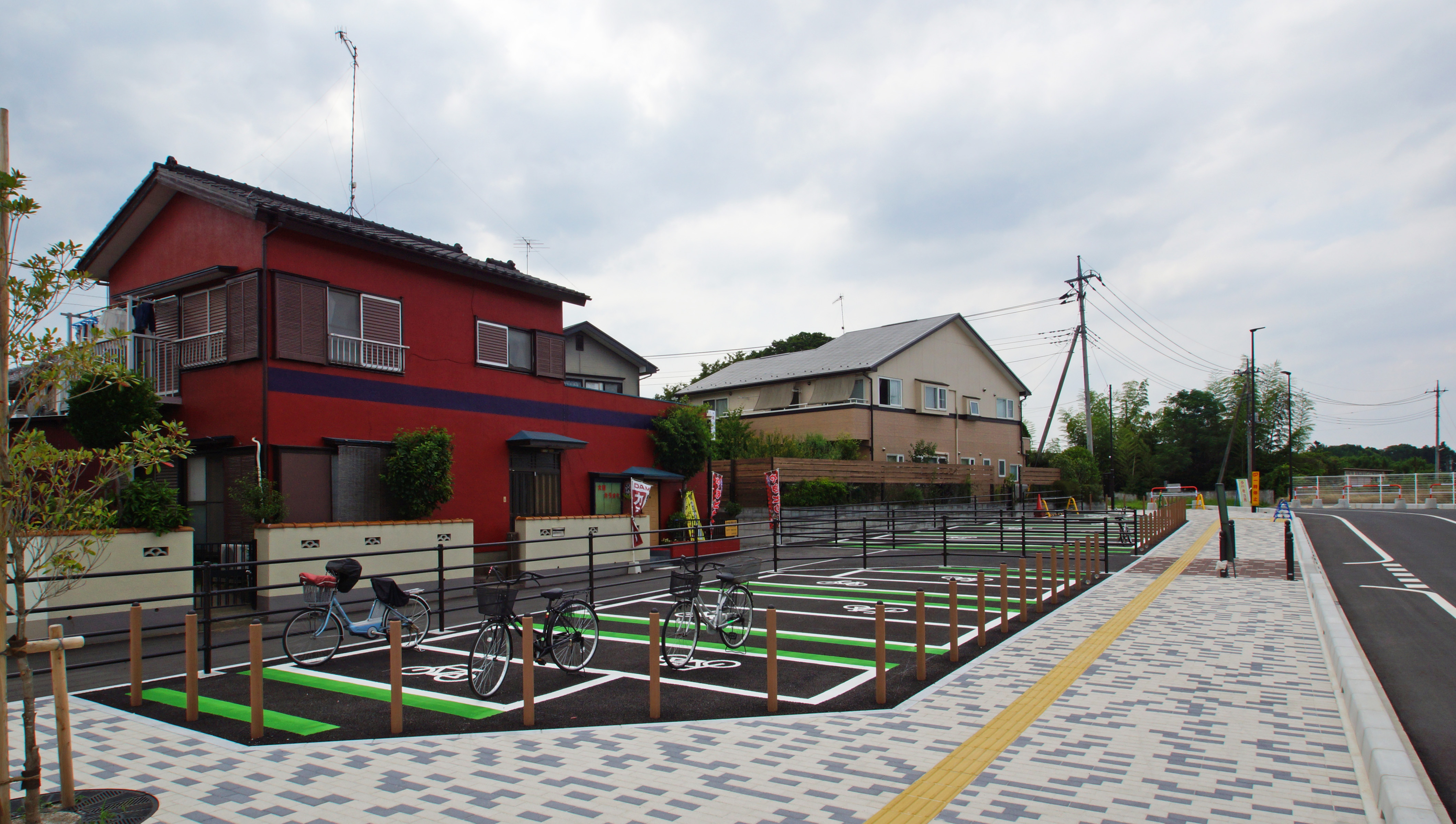 The bicycle parking area on the west side of Obusuma Station on the Tobu Tojo Line in Saitama Prefecture, Japan